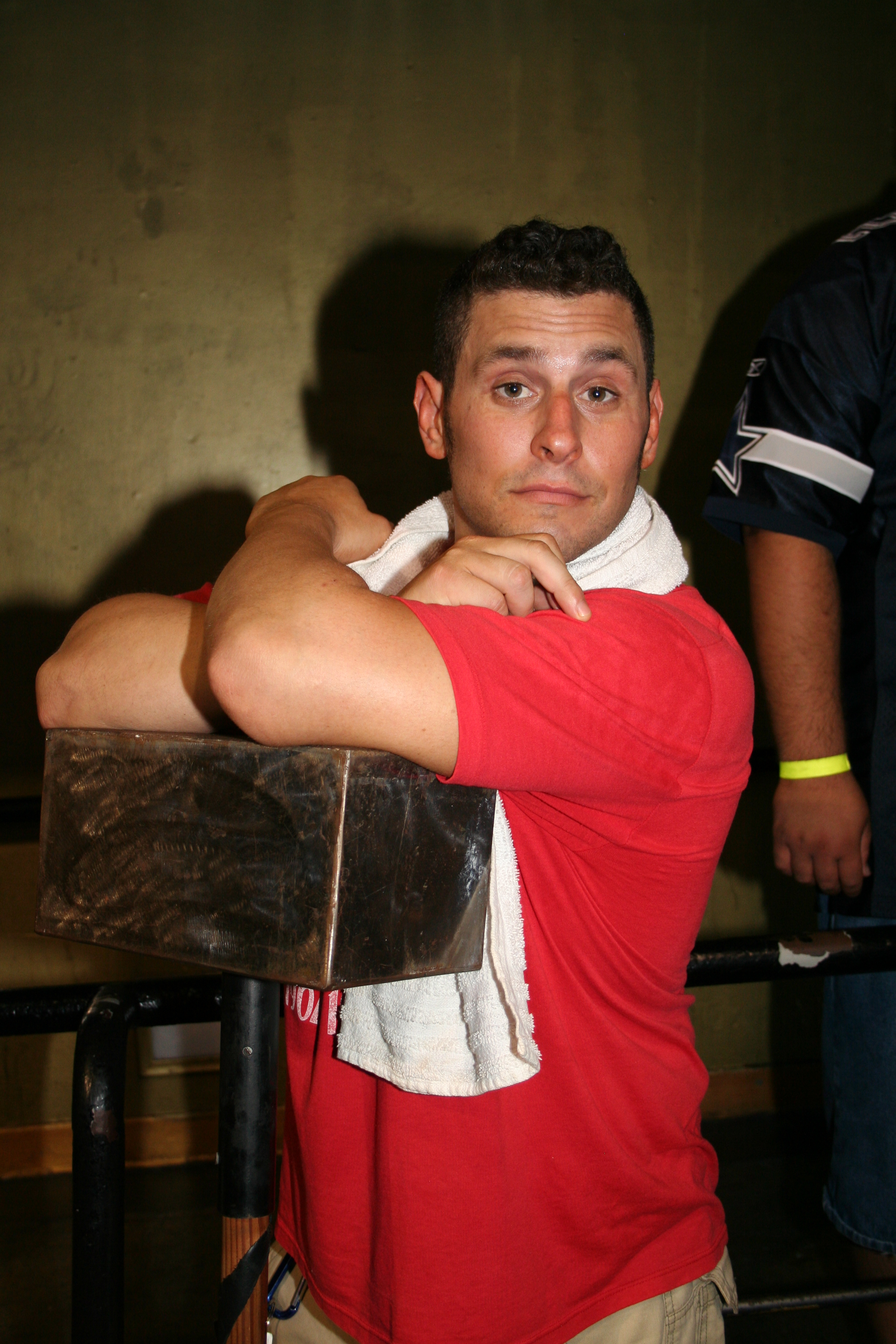 Professional wrestler Colt Cabana (real name Scott Colton) posing with a fan's "hammer" at XPW X (10th Anniversary Show) on August 22, 2009.